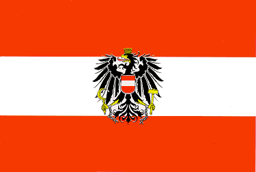 Official state flag of Austria